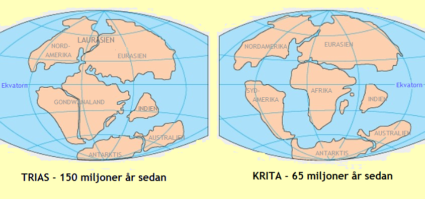 Maps showing the continental drift during Triassic and Cretaceous periods